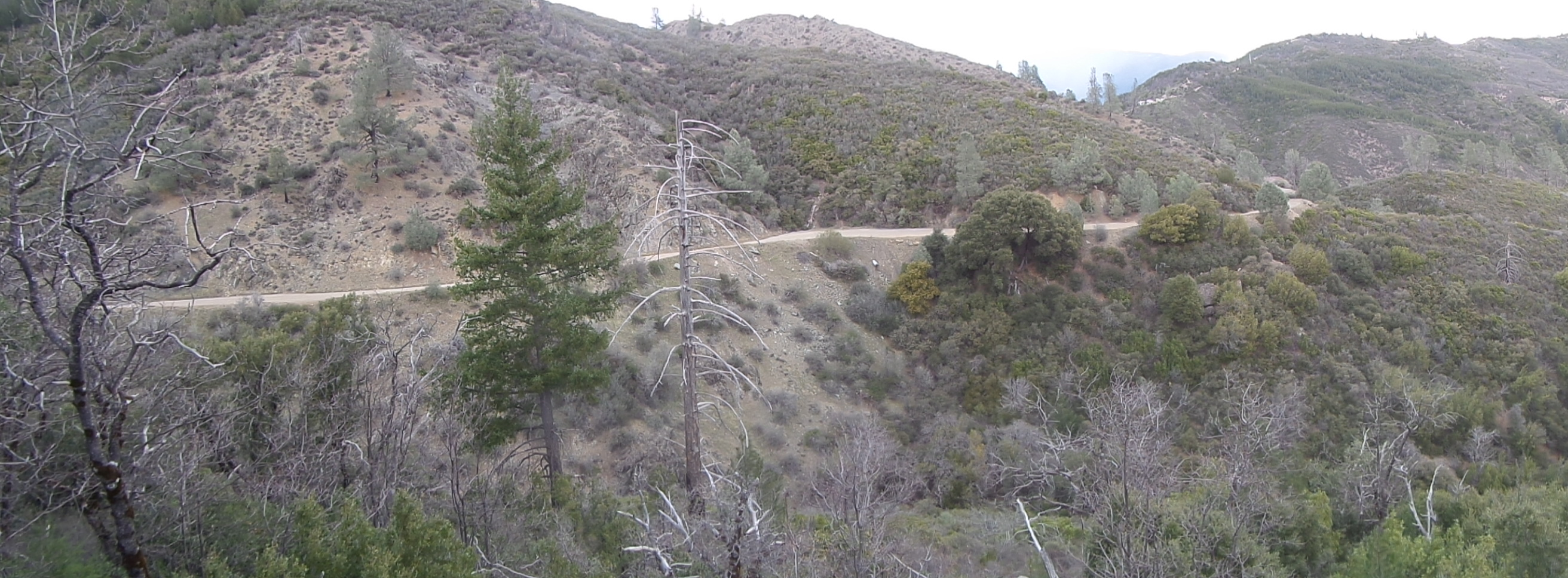 The road leading to Bartlett Springs, CA. February 2018.